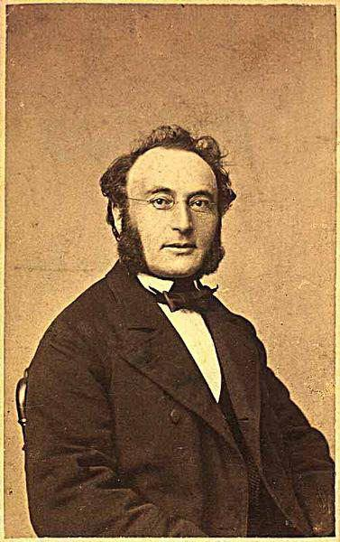 Portrait photograph of the writer Meir Goldschmidt